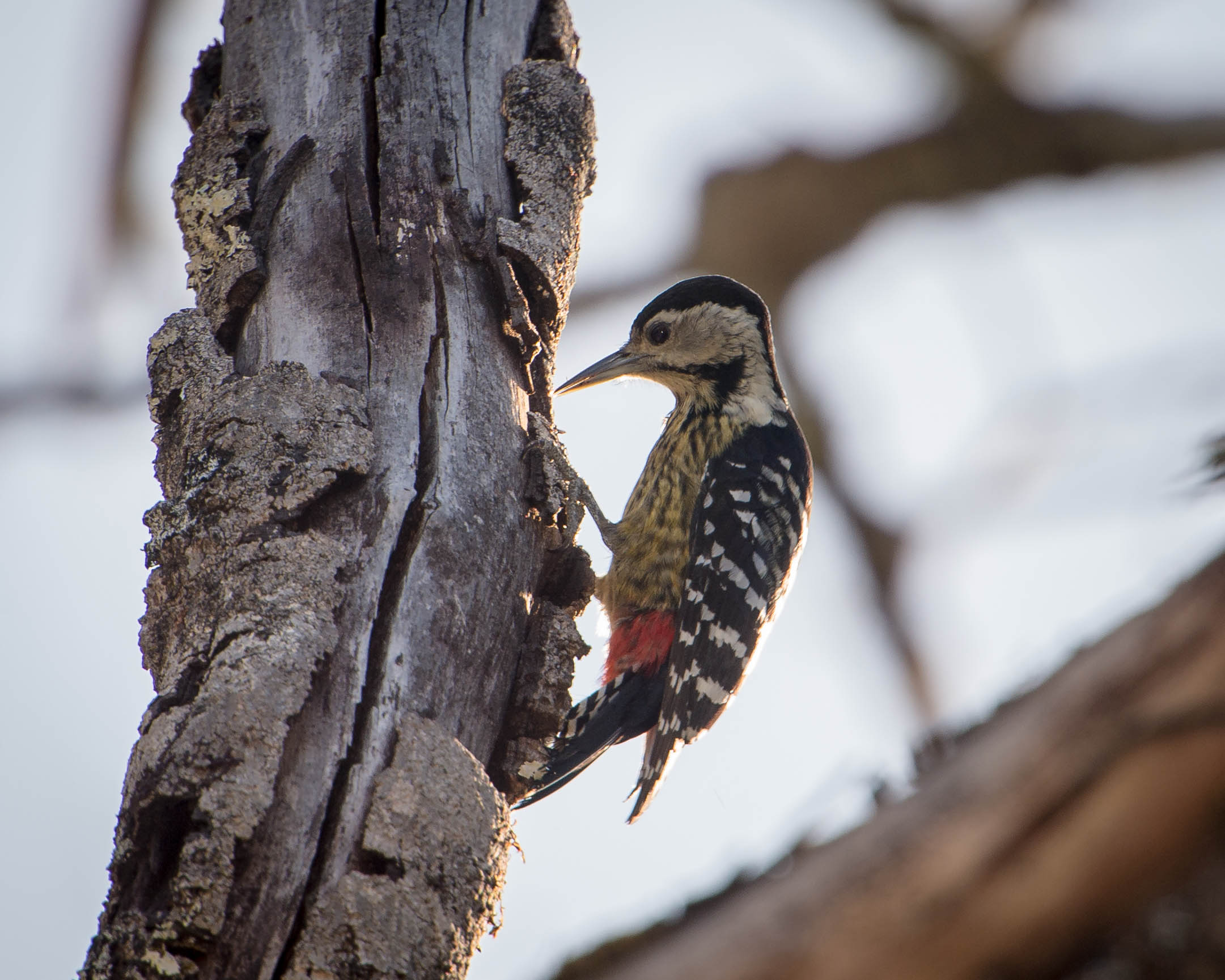 Stripe-breasted Woodpecker (Dendrocopos atratus). 19th February 2013 at Thai/Myanmar Border. Doi Lang, Chiang Mai, Thailand